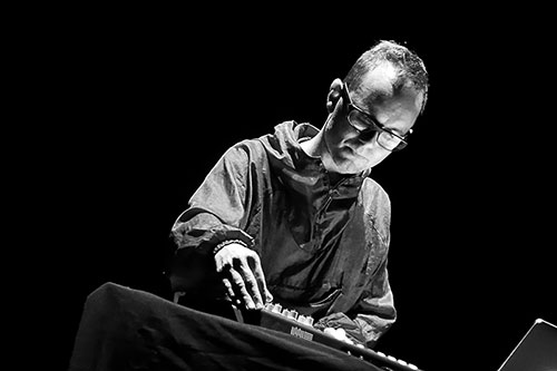 Thomas Knak solo concert in Aarhus, Denmark (2015)